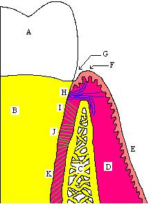 The Periodontium